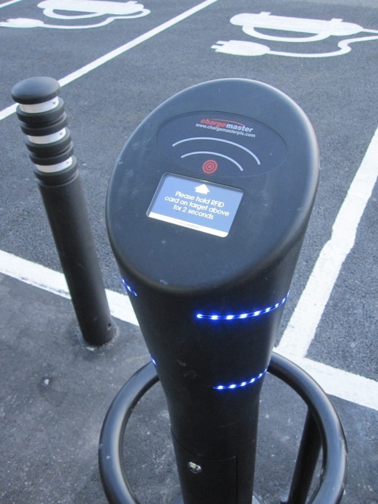 Charging point for electric cars in the car park at Asda in Inverness